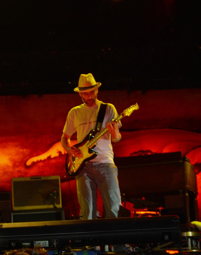 Live Festimad 2007 , 9 June 2007